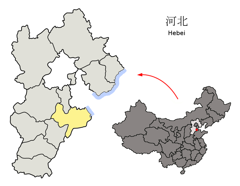 Location of Cangzhou Prefecture (yellow) within Hebei Province of China Map drawn in december 2007 using various sources, mainly : Hebei Province administrative regions GIS data: 1:1M, County level, 1990 Hebei Counties map from